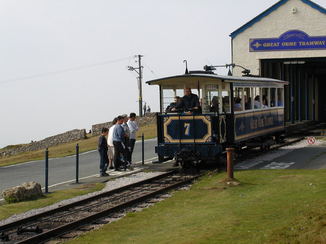 Tramway, Llandudno. The Great Orme Tramway at Llandudno, North Wales